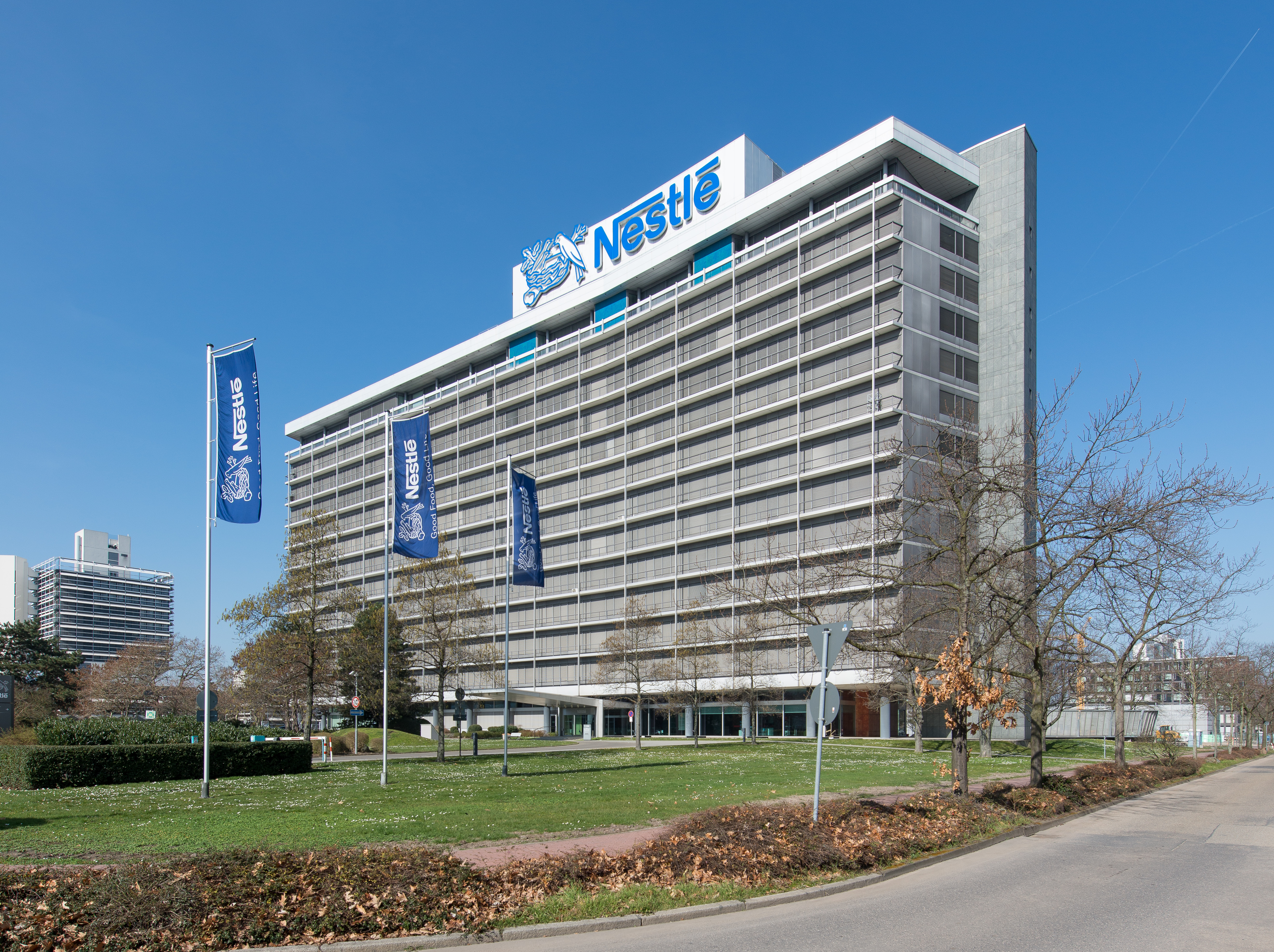 Frankfurt am Main, Lyoner Straße 23 (as seen from South-East). Office tower used by Nestlé